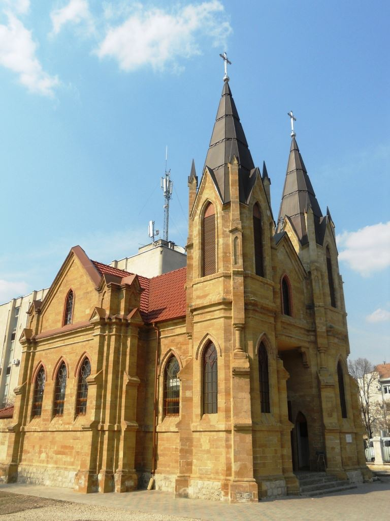 Image of the Roman Catholic church in Orhei, Republic of MoldovaRomână: Vedere a Bisericii romano-catolice din Orhei, Republica Moldova